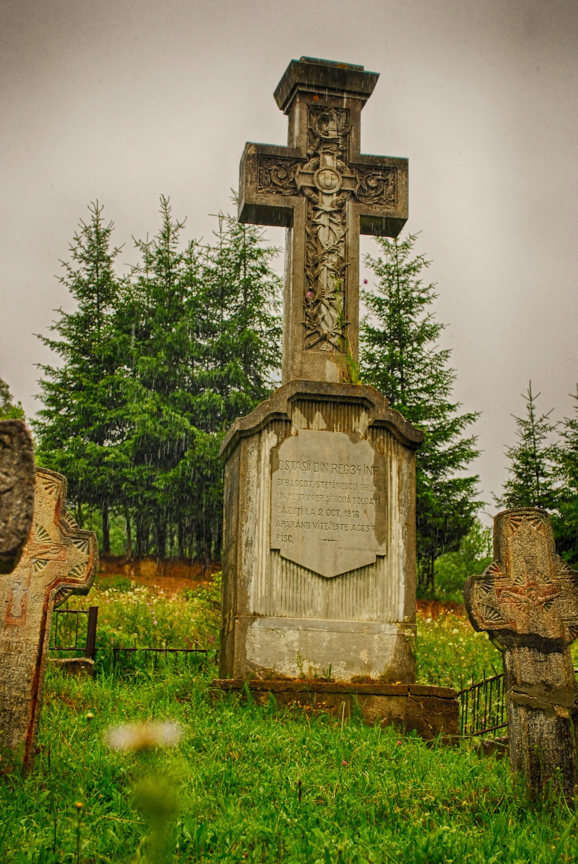 World War I heroes' cemetery near Gura Siriului, Siriu commune, Buzău County, RomaniaRomână: Cimitirul eroilor din Primul Război Mondial de lângă Gura Siriului, comuna Siriu, județul Buzău, România 02